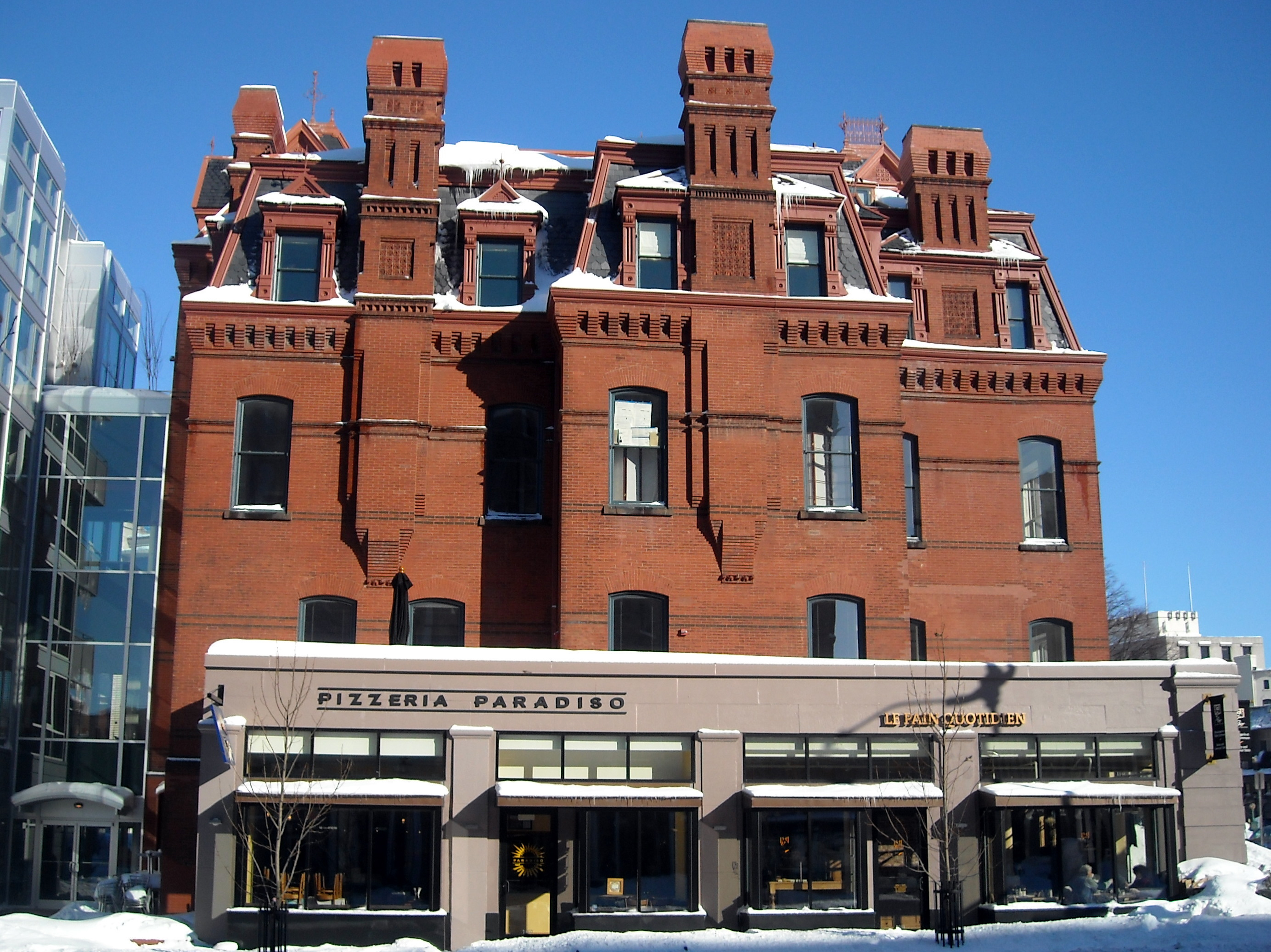 The former residence of James G. Blaine, located at 2000 Massachusetts Avenue, N.W., in the Dupont Circle neighborhood of Washington, D.C., following the Second North American blizzard of 2010.